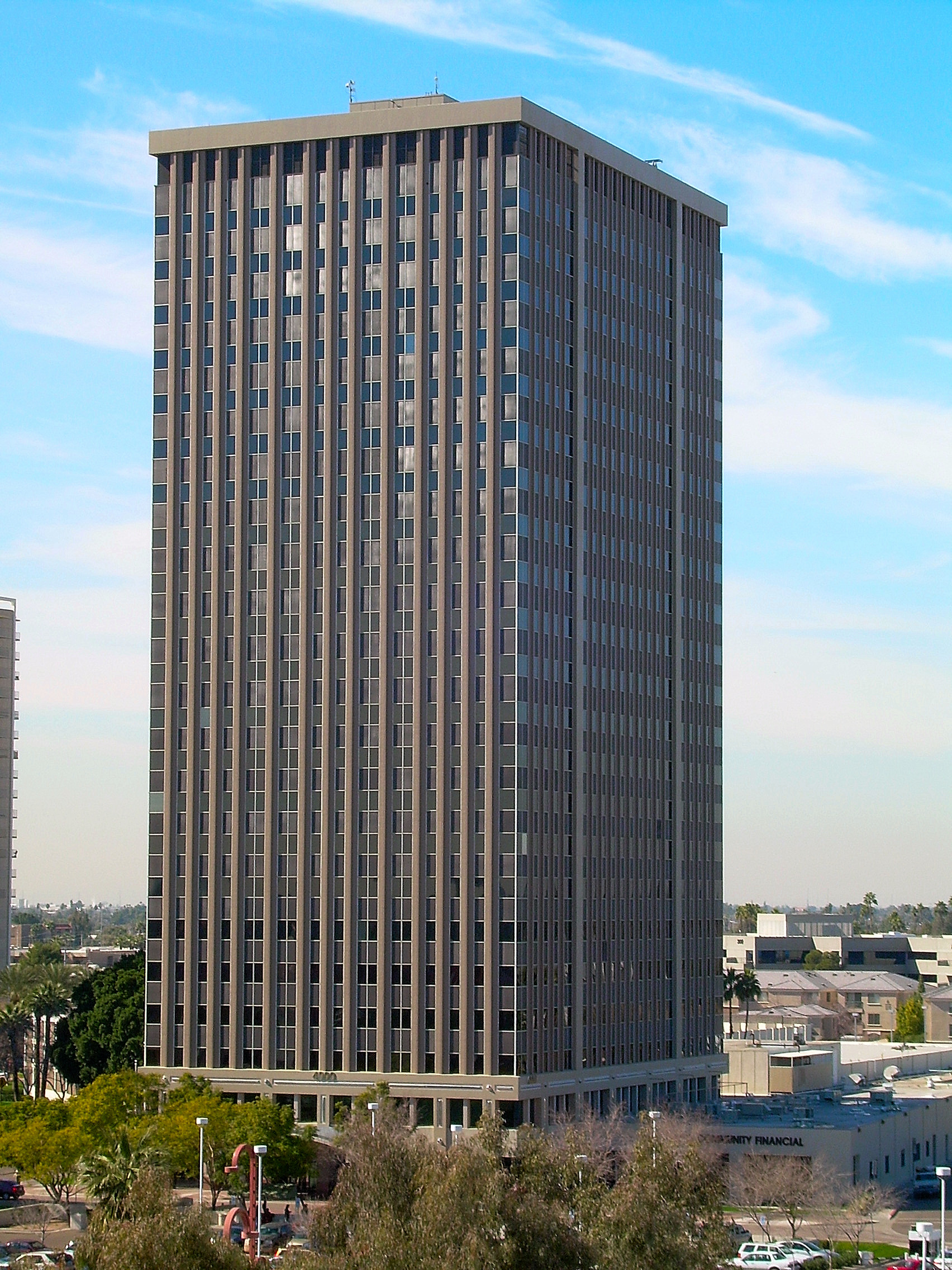 The 4000 Tower at Phoenix City Square — high rise Hilton hotel and office building at 4000 Central Avenue in midtown Phoenix, Arizona.